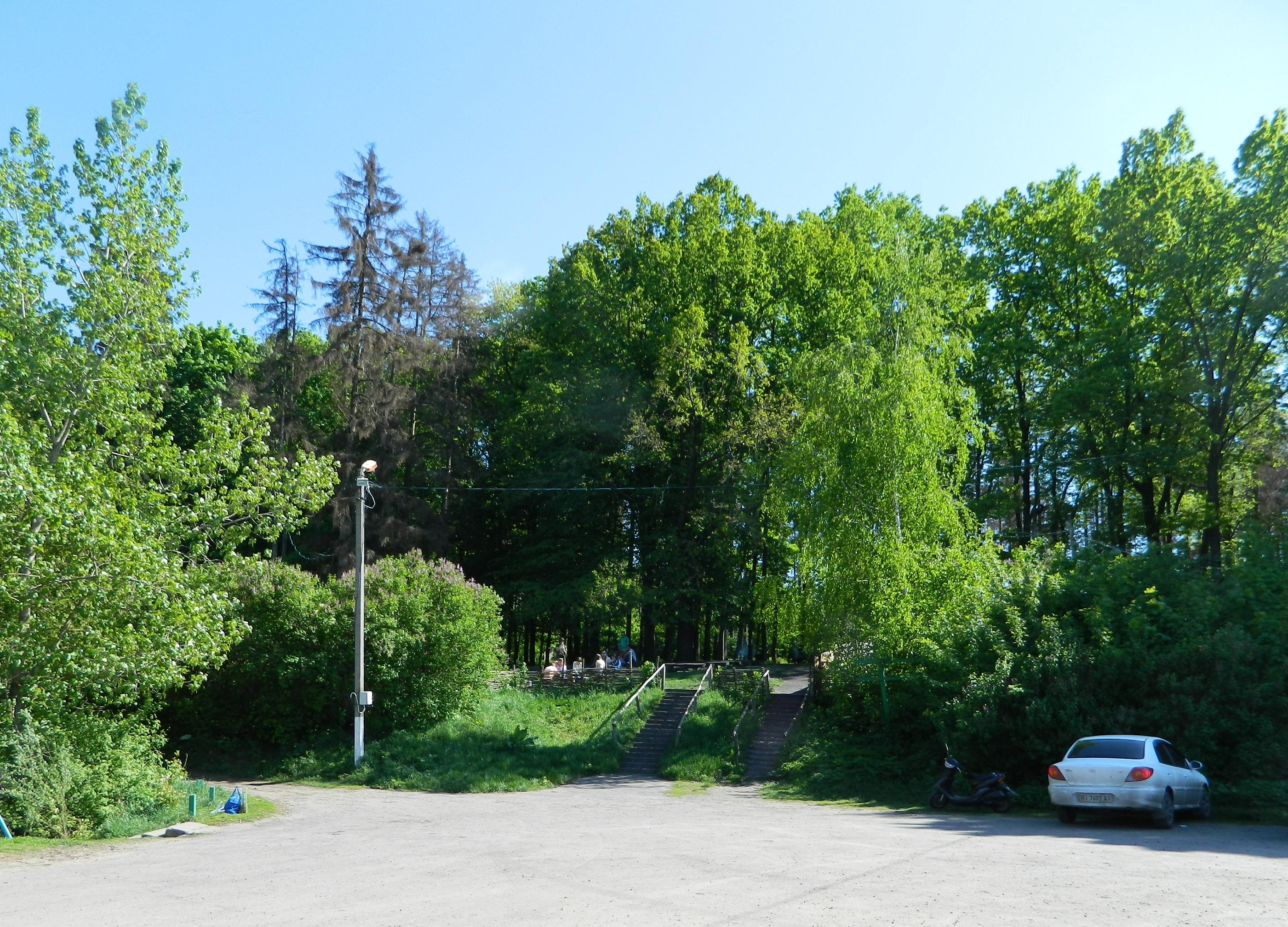 Ukraine. Dykanka. Venue of Festival "Songs Lilac Grove" in Spruce Grove